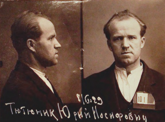 Jurko Tjutjunnyk, Officer of Ukrainian Army ( 1918-1921) in rank of General, captured by OGPU on the border, later consultant of Alexander Dovzhenko, executed by OGPU in 1930. His last photo from archives of Soviet political police